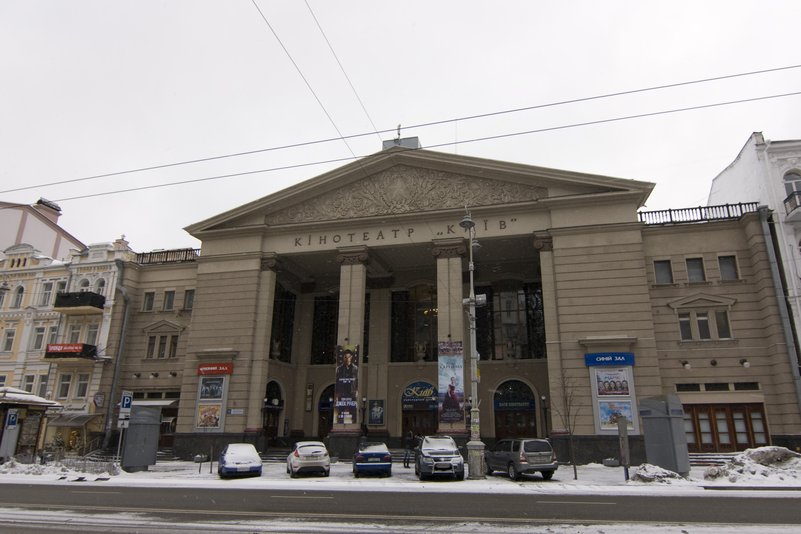 Cinema theatre, "Kiev", Kiev, Ukraine